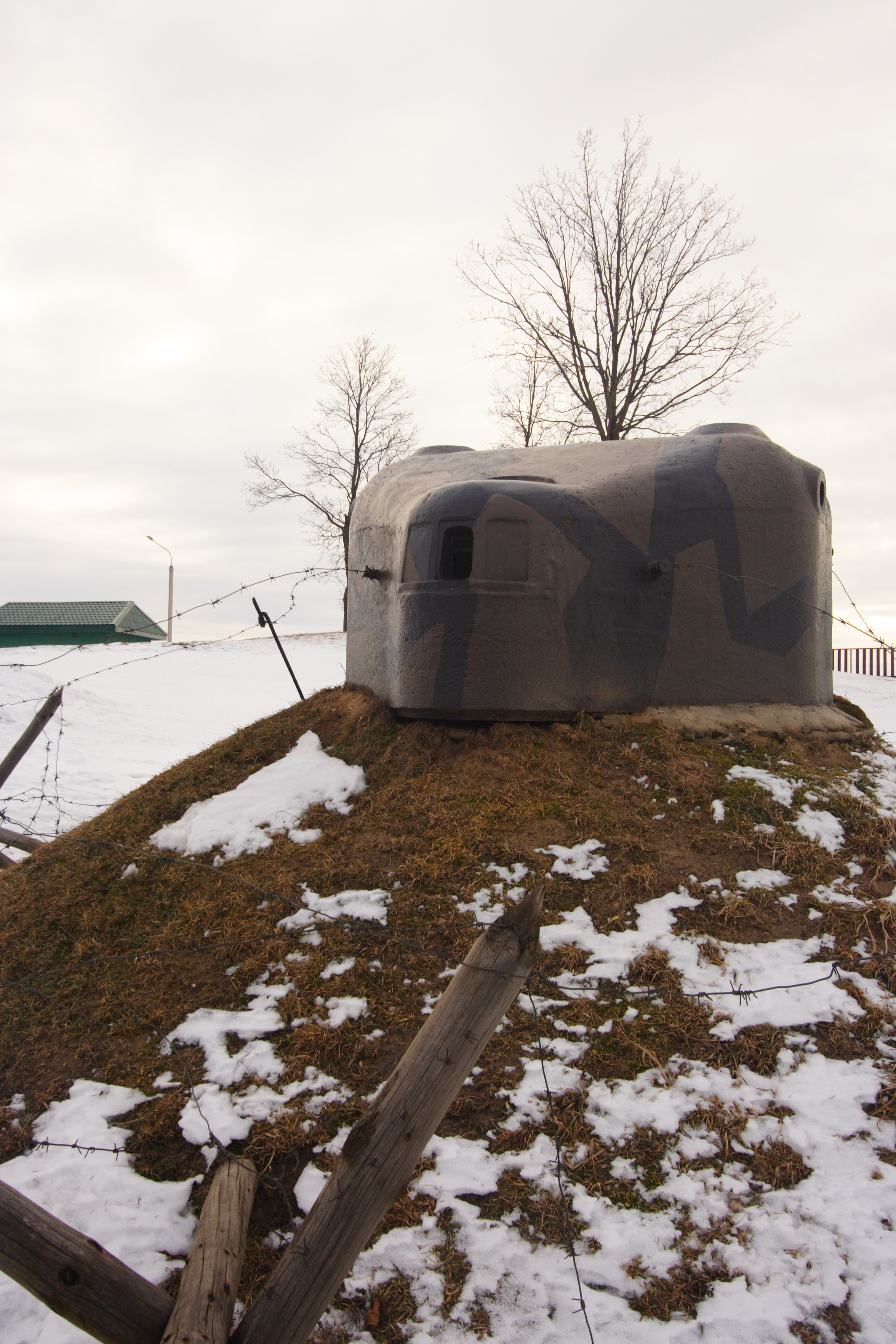 Observation post